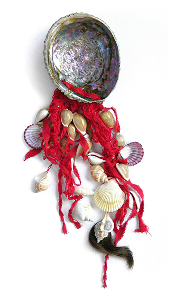 Laszlo Szlavics Jr.: Cultic proto-money, shell, textile, hair, mixed technique, 150 x 430 mm, 2004